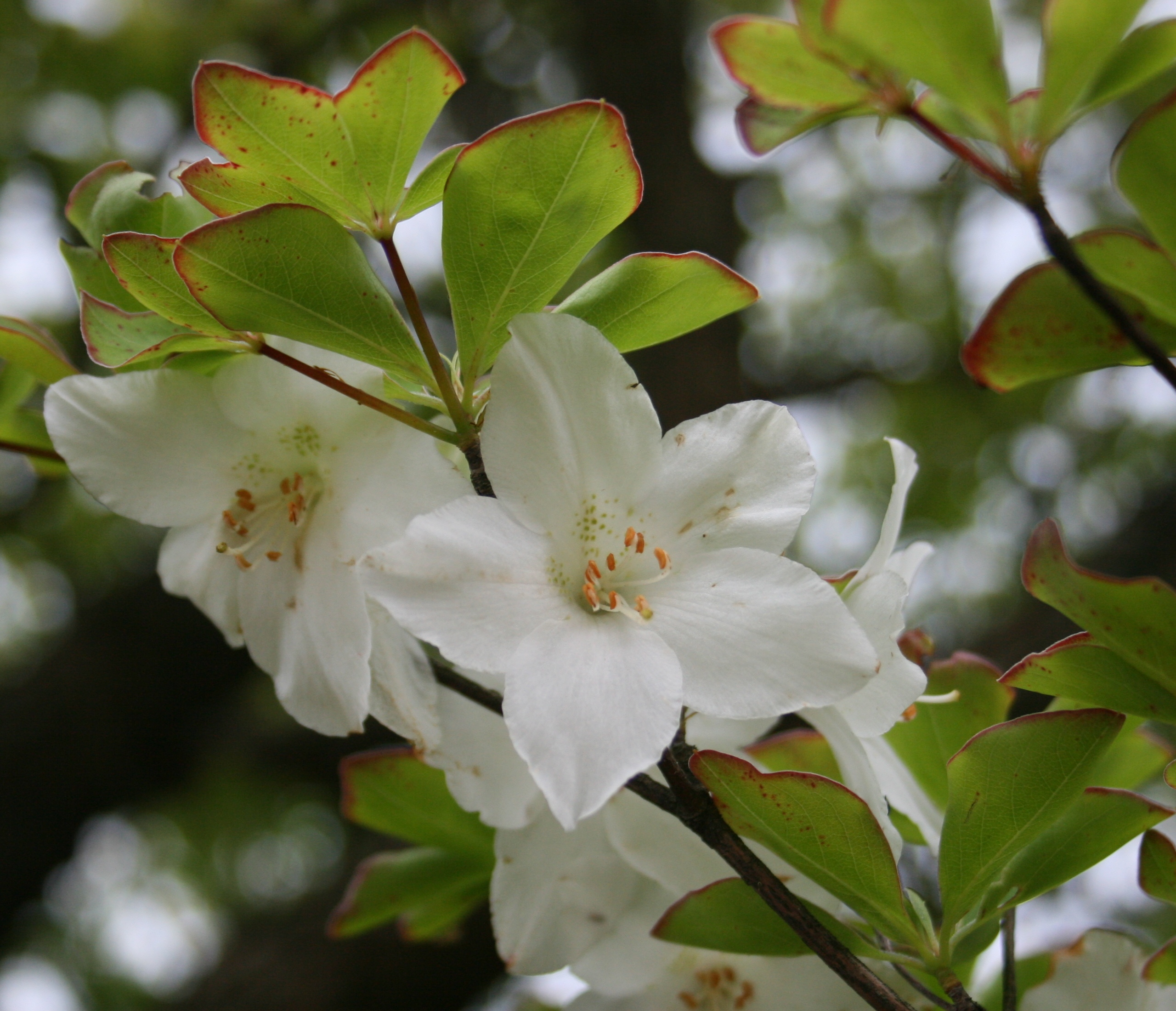 Rhododendron quinquefolium in Mount Gozaisho, Komono, Mie, Japan.